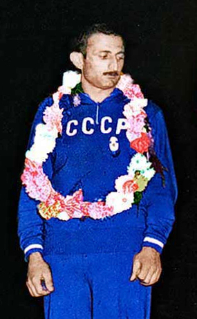 Freestyle Wrestling at the 1959 World Wrestling Championships, 73 kg podium, Vakhtang Balavadze